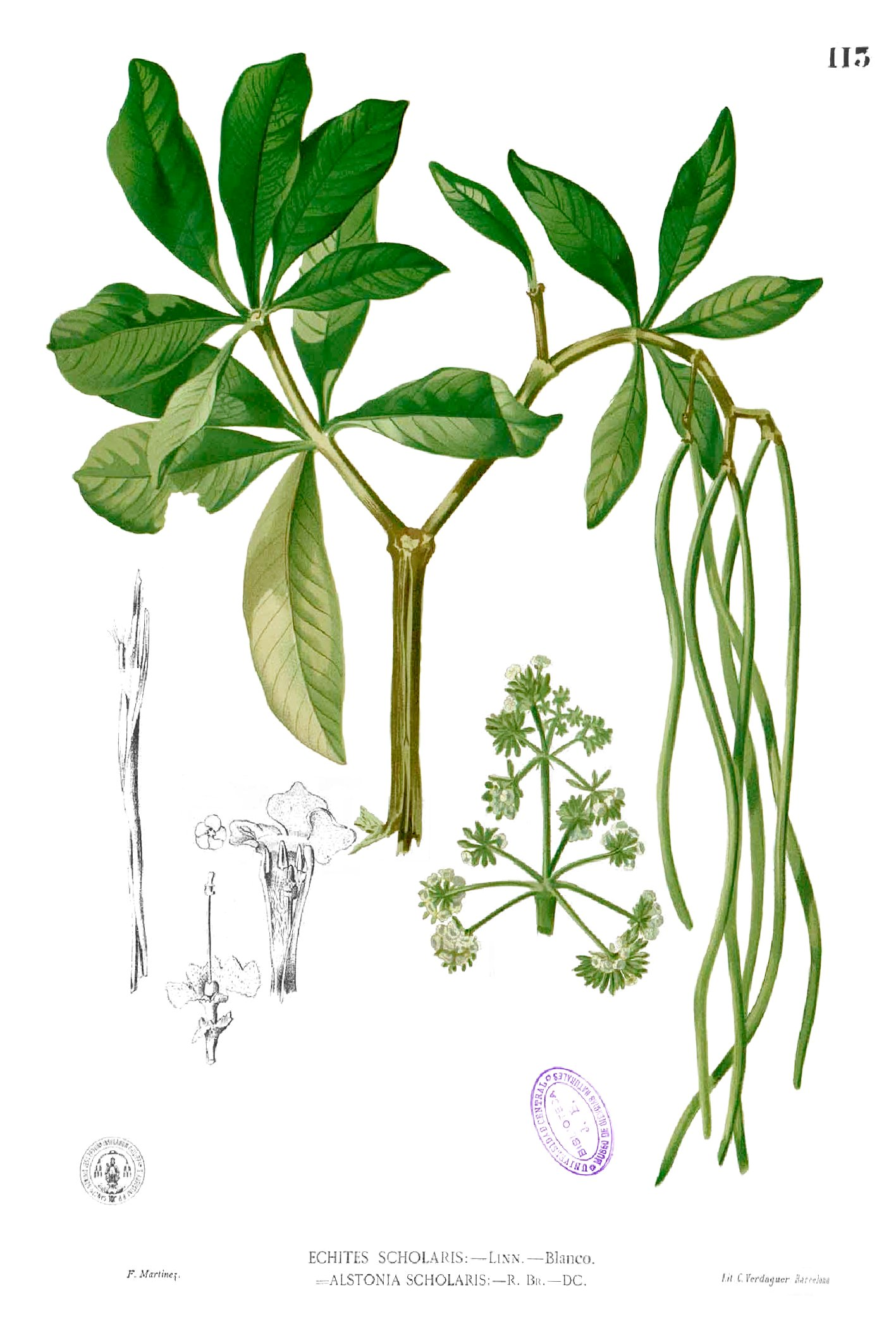 Alstonia scholaris Plate from book